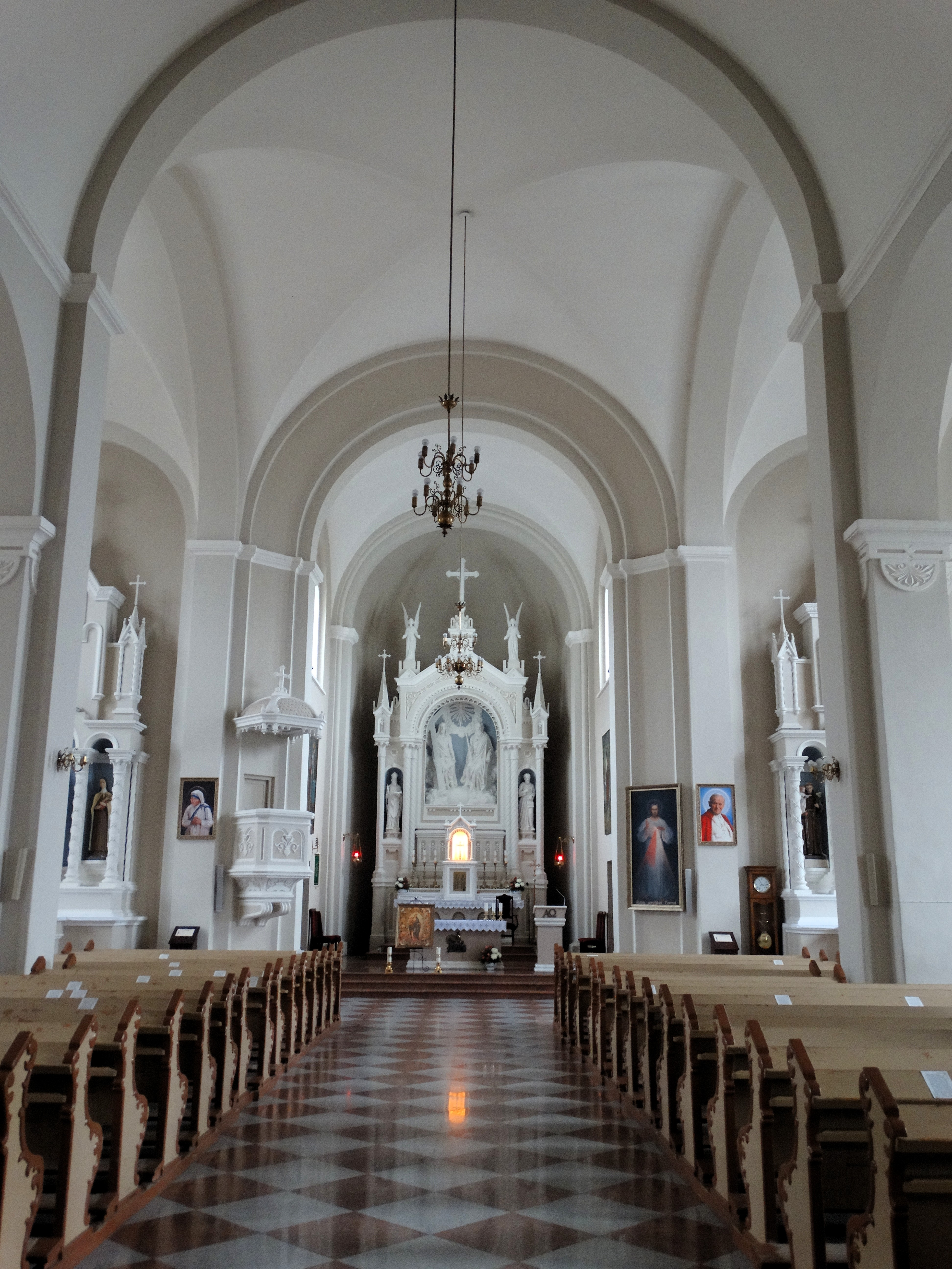 Catholic Church, Tauragė, Lithuania